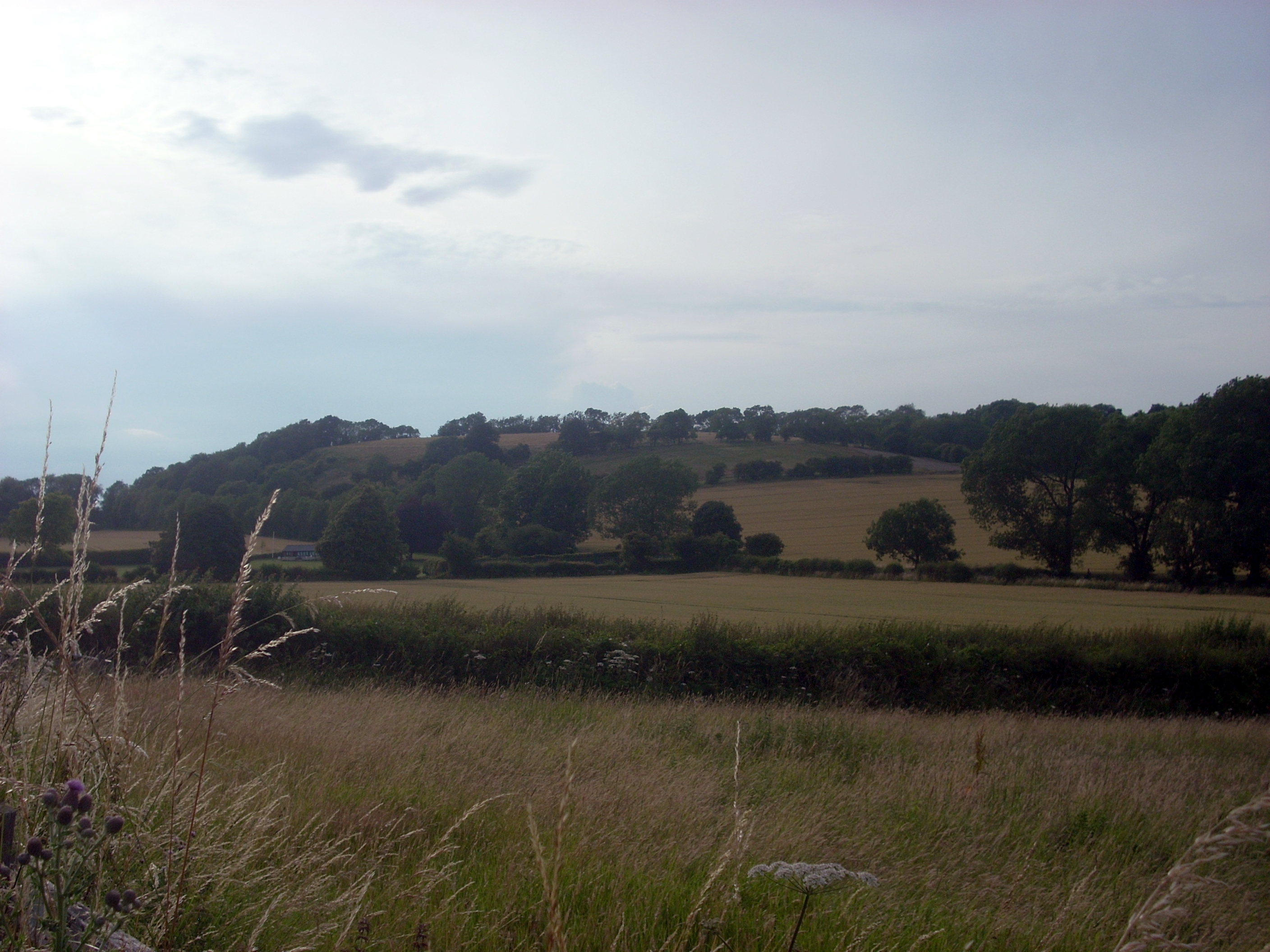 Torberry Hill hillfort near South Harting, West Sussex, England. South side.